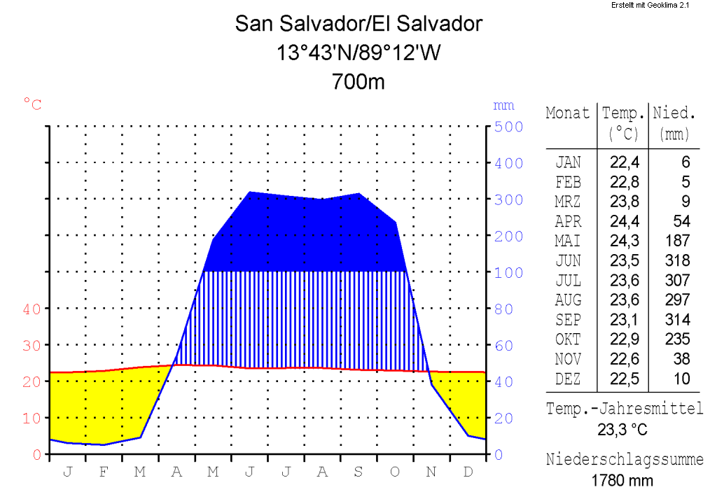 climate chart in the format by Walther and Lieth, metric, °Celsisus and millimeters, made with Geoklima 2.1